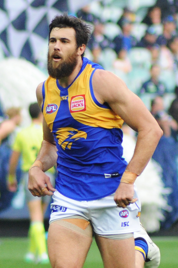 Josh Kennedy during the AFL round five match between Carlton and West Coast on 21 April 2018 at the Melbourne Cricket Ground in Melbourne, Victoria.